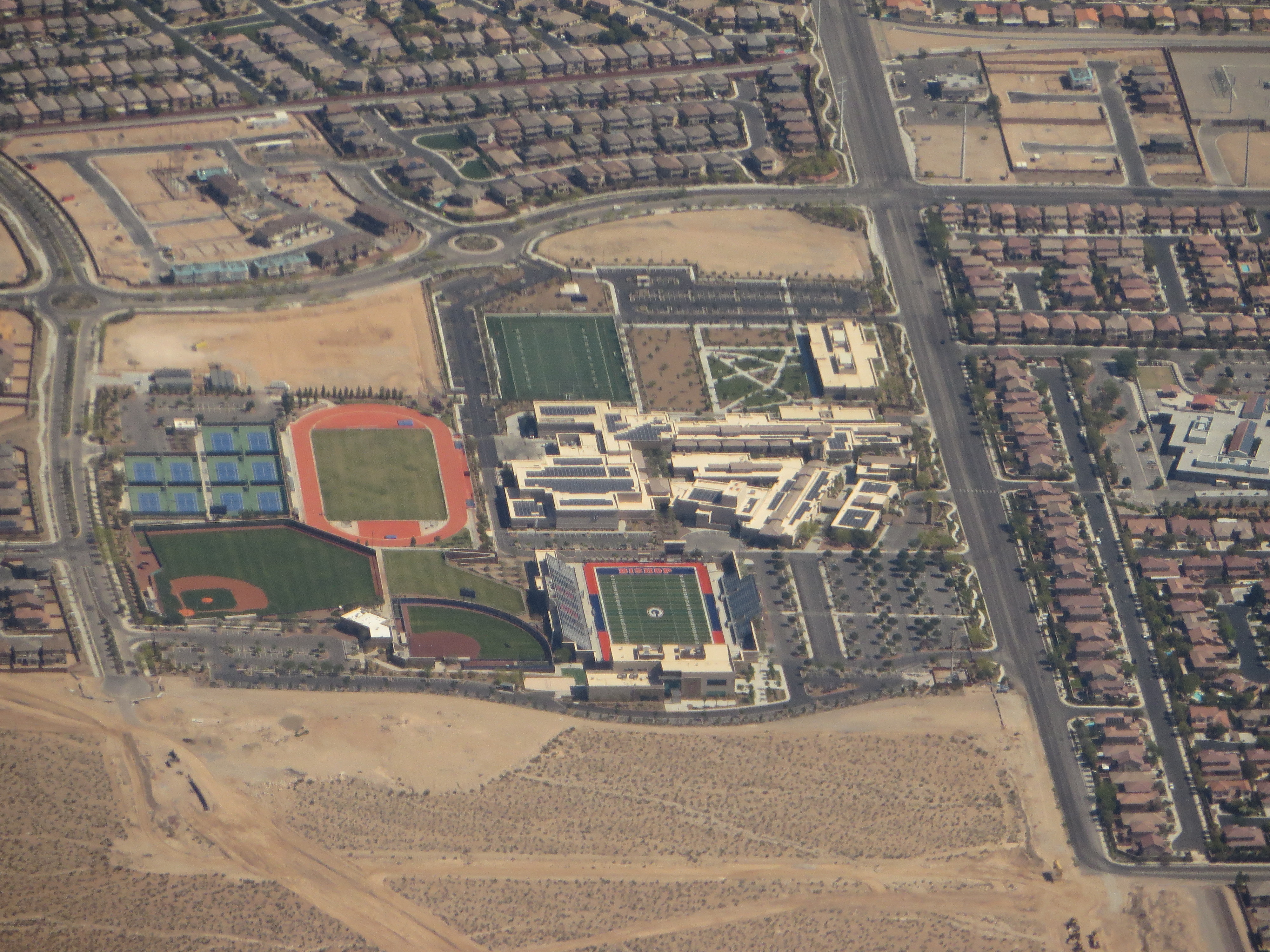 Bishop Gorman High School (commonly referred to as Gorman or BGHS) is a Catholic, private, preparatory school located in Summerlin, in Clark County, Nevada, United States serving the Las Vegas area for over 50 years. The school is administered by the Diocese of Las Vegas. The school opened in 1954 and its mascot is a Gael, or mounted Irish Knight. The athletics program at Bishop Gorman are known as the Gaels and compete in the Southwest Division of the Sunset 4A Region. The Gaels have become one of the most prominent high school athletics program in the state of Nevada,winning numerous state championships each year. Additionally, the Gaels have been recognized by Sports Illustrated as one of the top athletic programs in the nation.